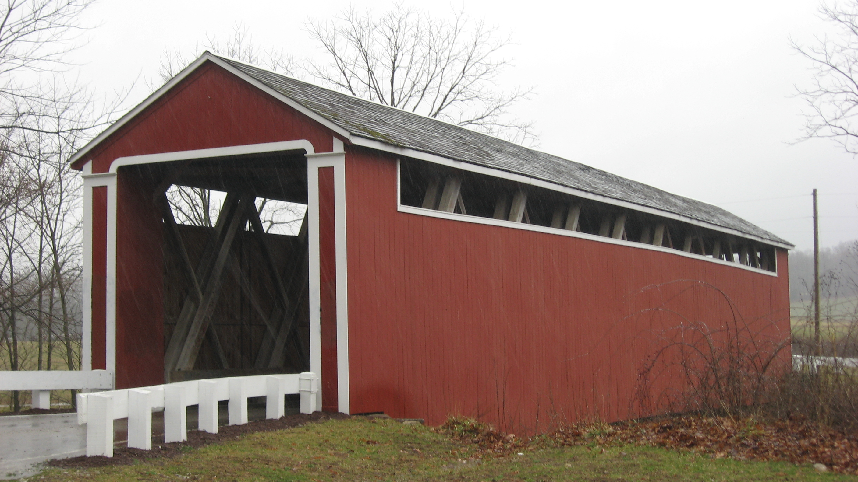 Southeastern portal and northeastern (downstream) side of the Stockheughter Covered Bridge, which carries Enochsburg Road over Salt Creek northwest of Batesville in Ray Township, Franklin County, Indiana, United States. Built in 1891, it is listed on the National Register of Historic Places. The diagonal lines in the image (which appear to go from the top left to the bottom right) are the result of taking this picture in rather heavy rain.